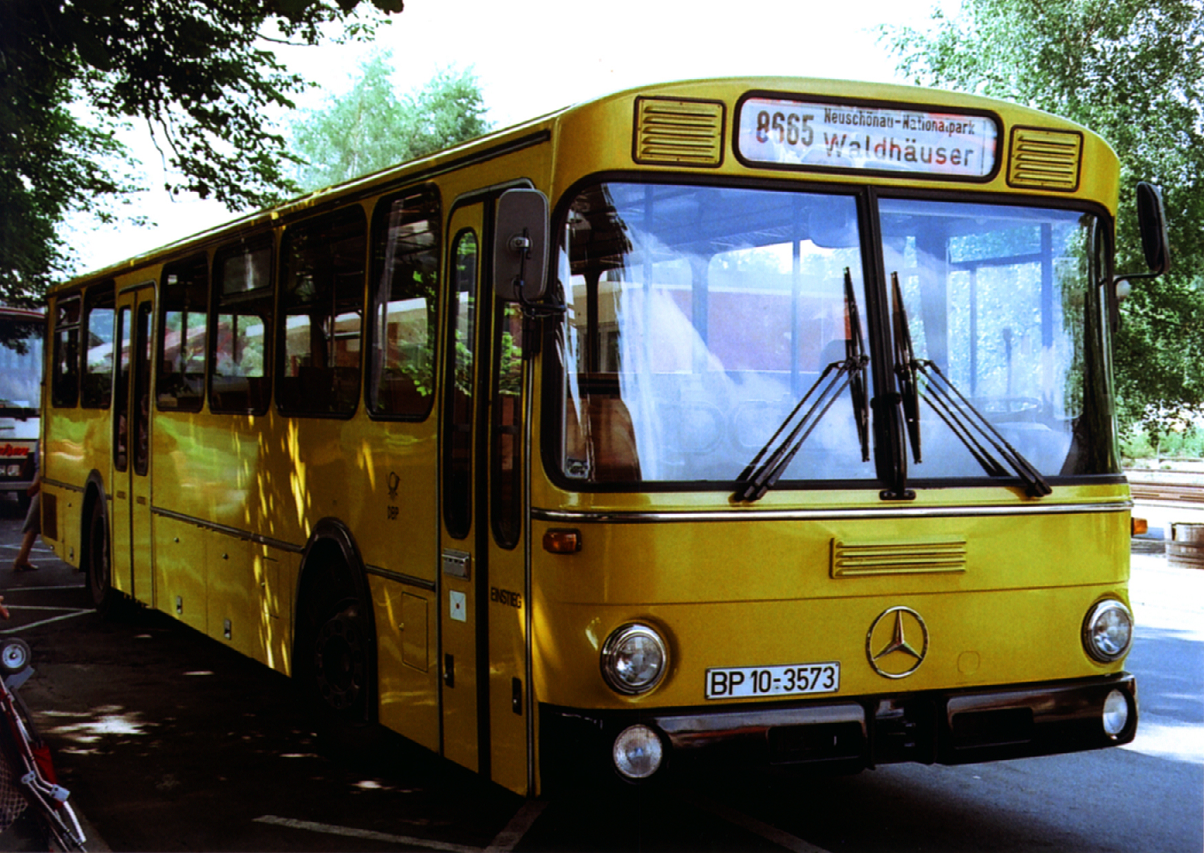 Mercedes-Benz O 307 Postbus in Grafenau, Bavaria. Clearly visible is the mailbox in the second wing of the bus' entrance.